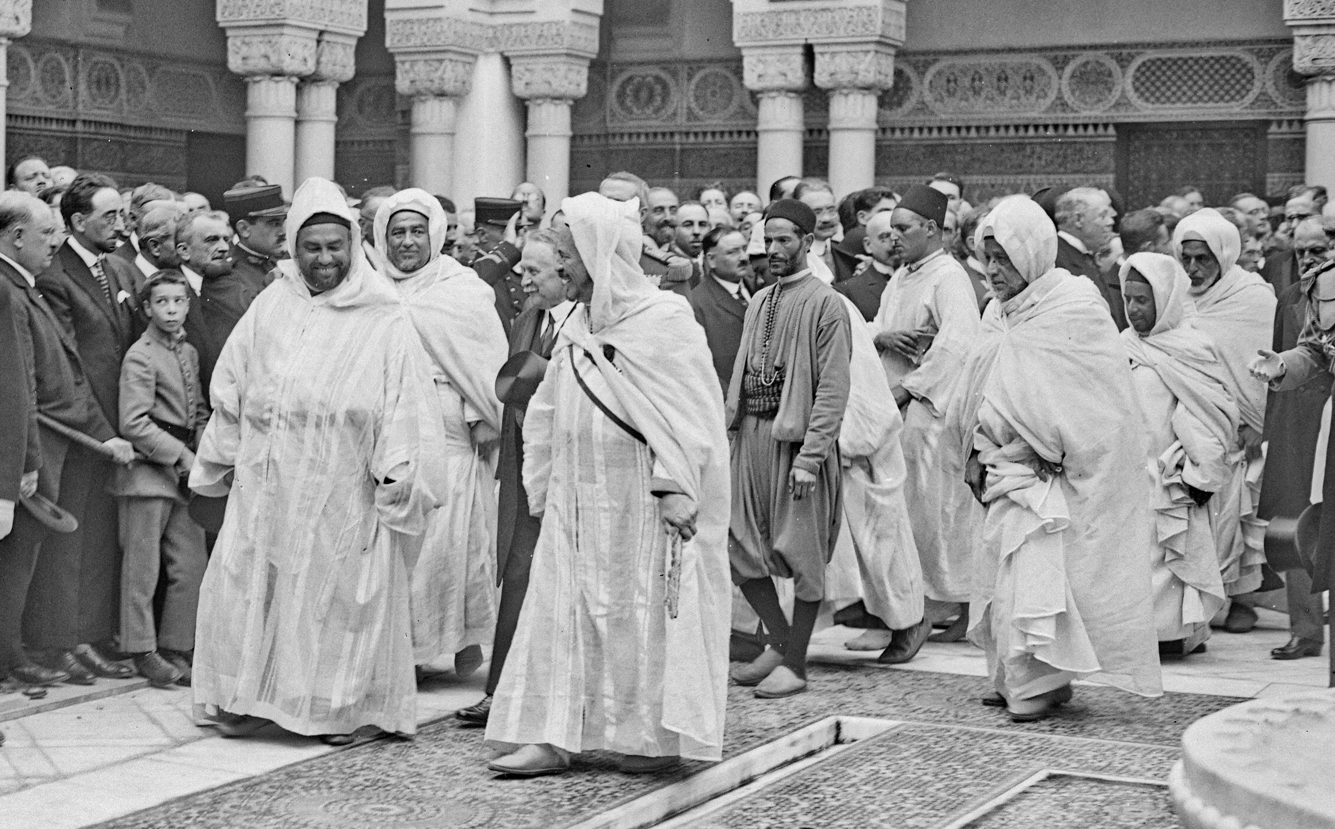 Inauguration of the Grand Mosque of Paris on July 15, 1926, with Sultan Yusuf of Morocco, Abdelqader Bin Ghabrit, Muhammad al-Muqri, and Gaston Doumergue in attendance.